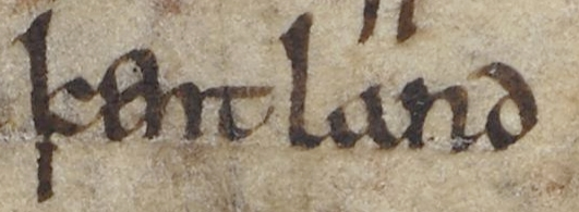 Kentland; from the Anglo-Saxon Chronicle.